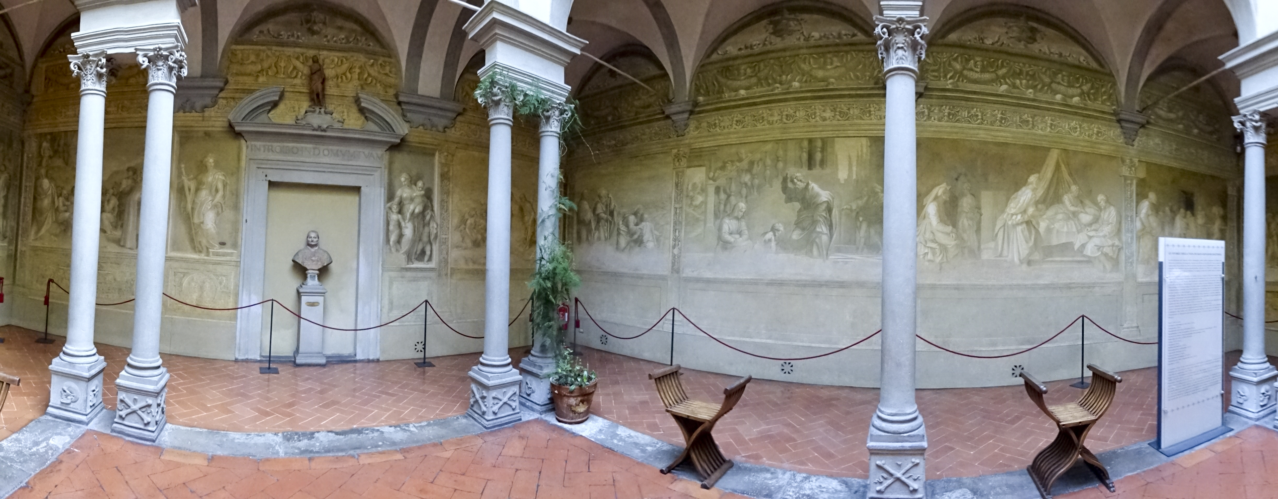 Interior of Chiostro